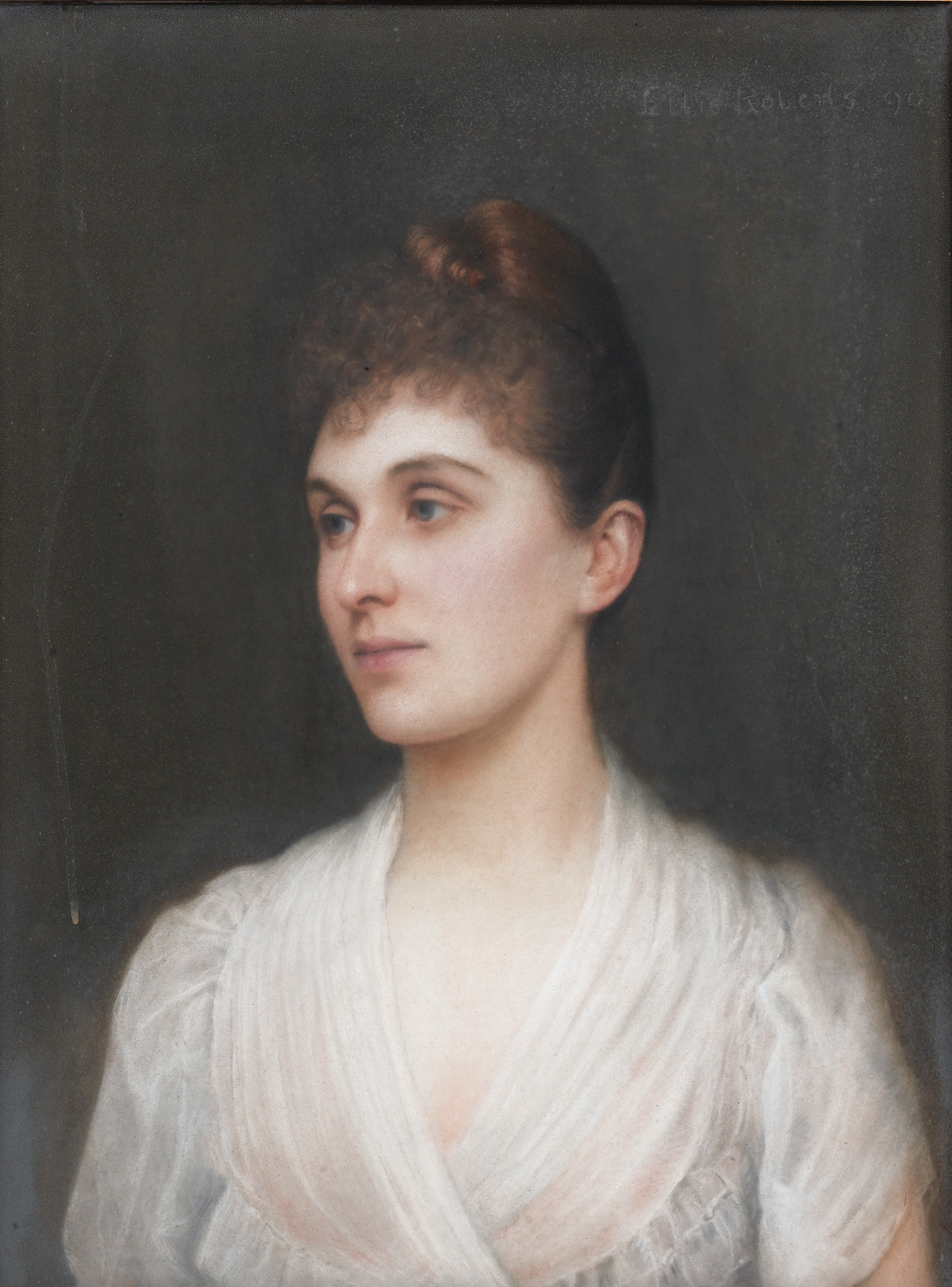 Bertha-Clara von Rothschild pastel on paper 59,5 x 44,5 cm signed t.r.: Ellis Roberts '90